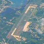 Aerial view of Magong Airport.